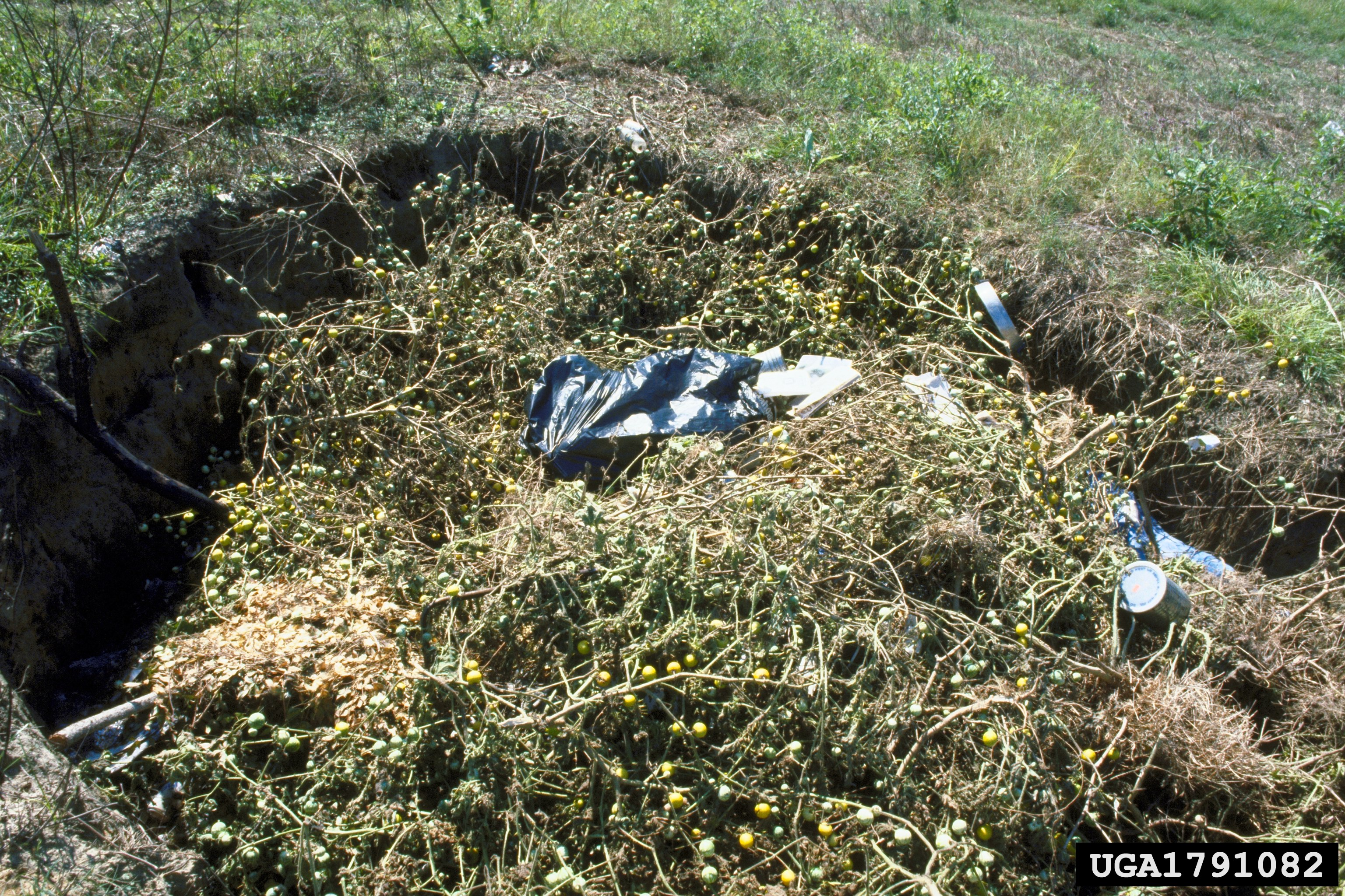 Hand pulled plants of the weed "Tropical Soda Apple" (Solanum viarum) in pit ready to be burned